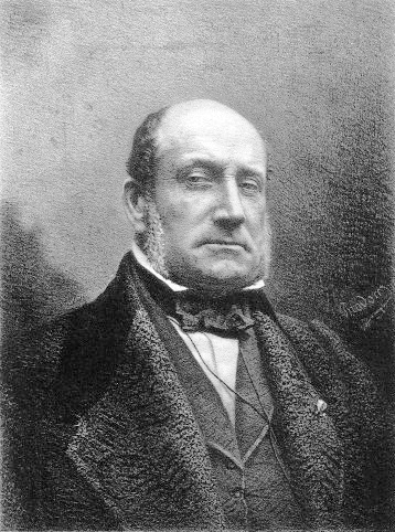 Lithograph of a self-portrait of French painter Louis Godefroy Jadin (30 June 1805 – 1882).